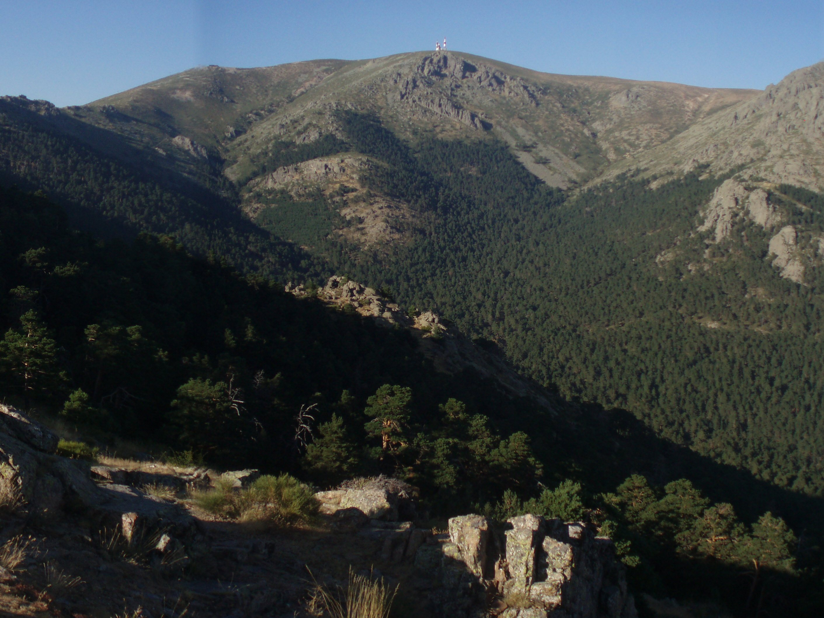 Bola del Mundo from Las Canchas viewpoint (Sierra de Guadarrama, central Spain).